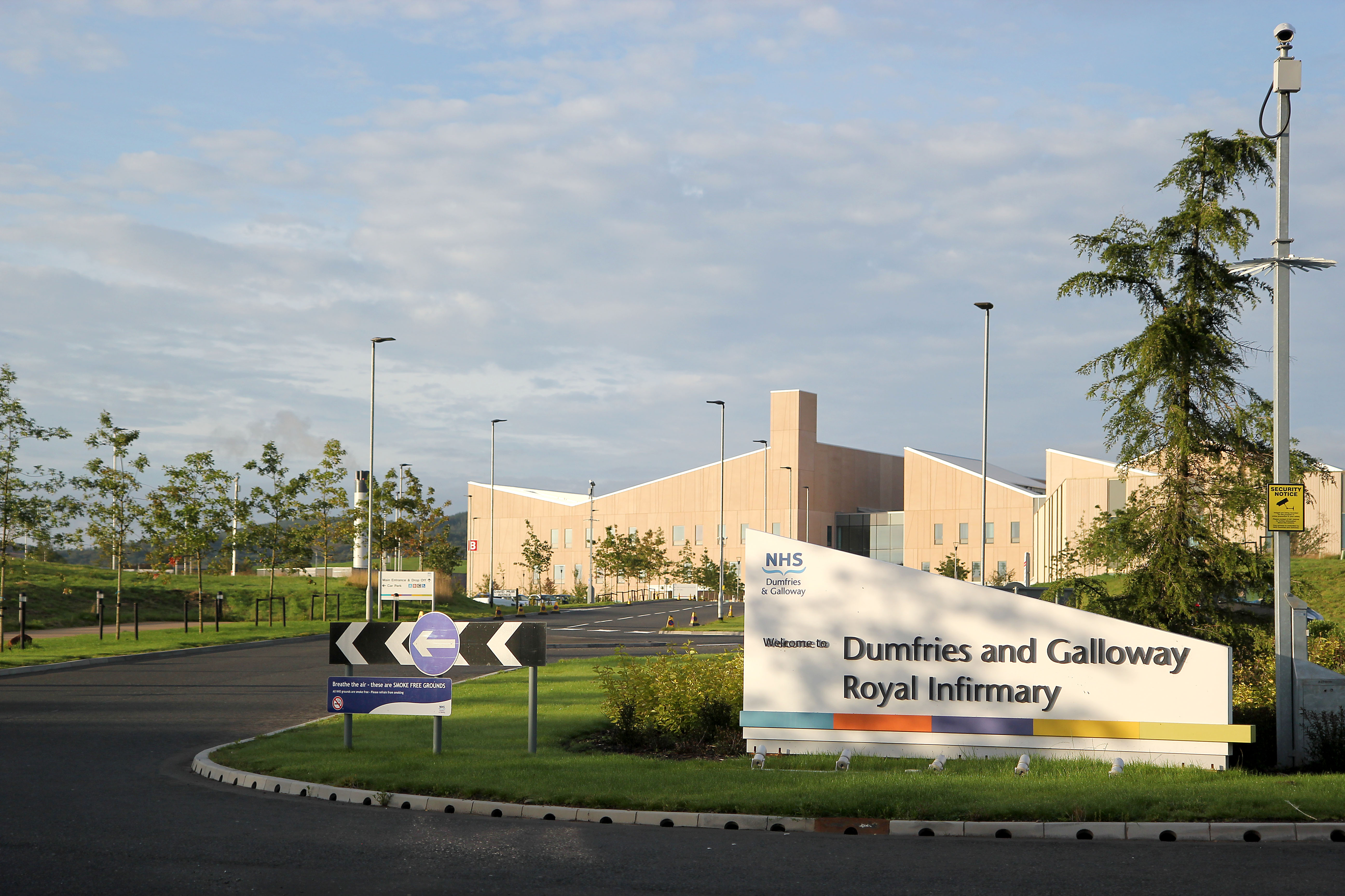 Acute Hospital with inpatient, outpatient, emergency department